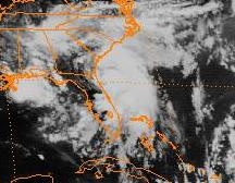 Hurricane Bob (1985) to the east of Florida on July 24, 1985